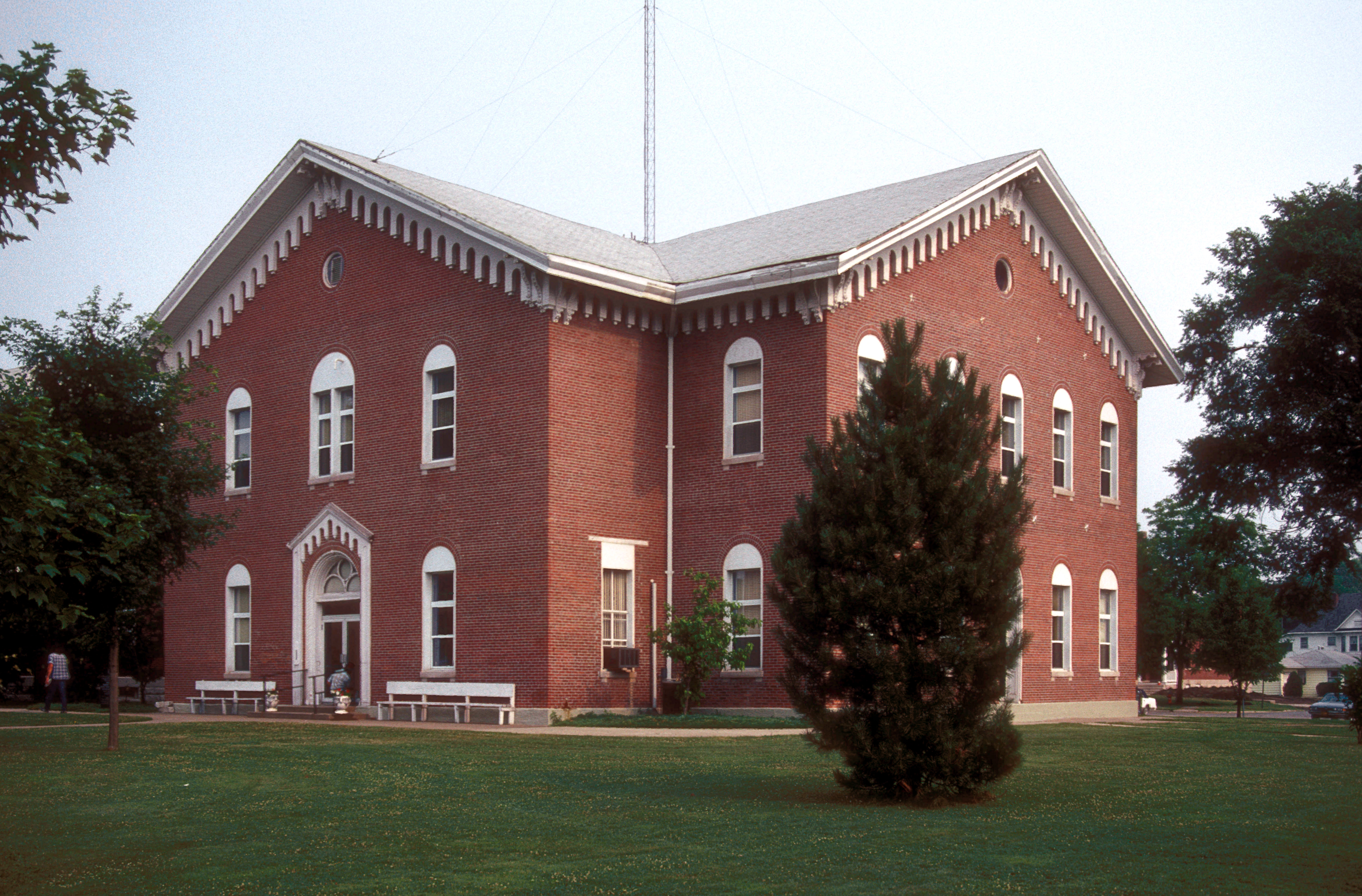 BUILT 1864-1865